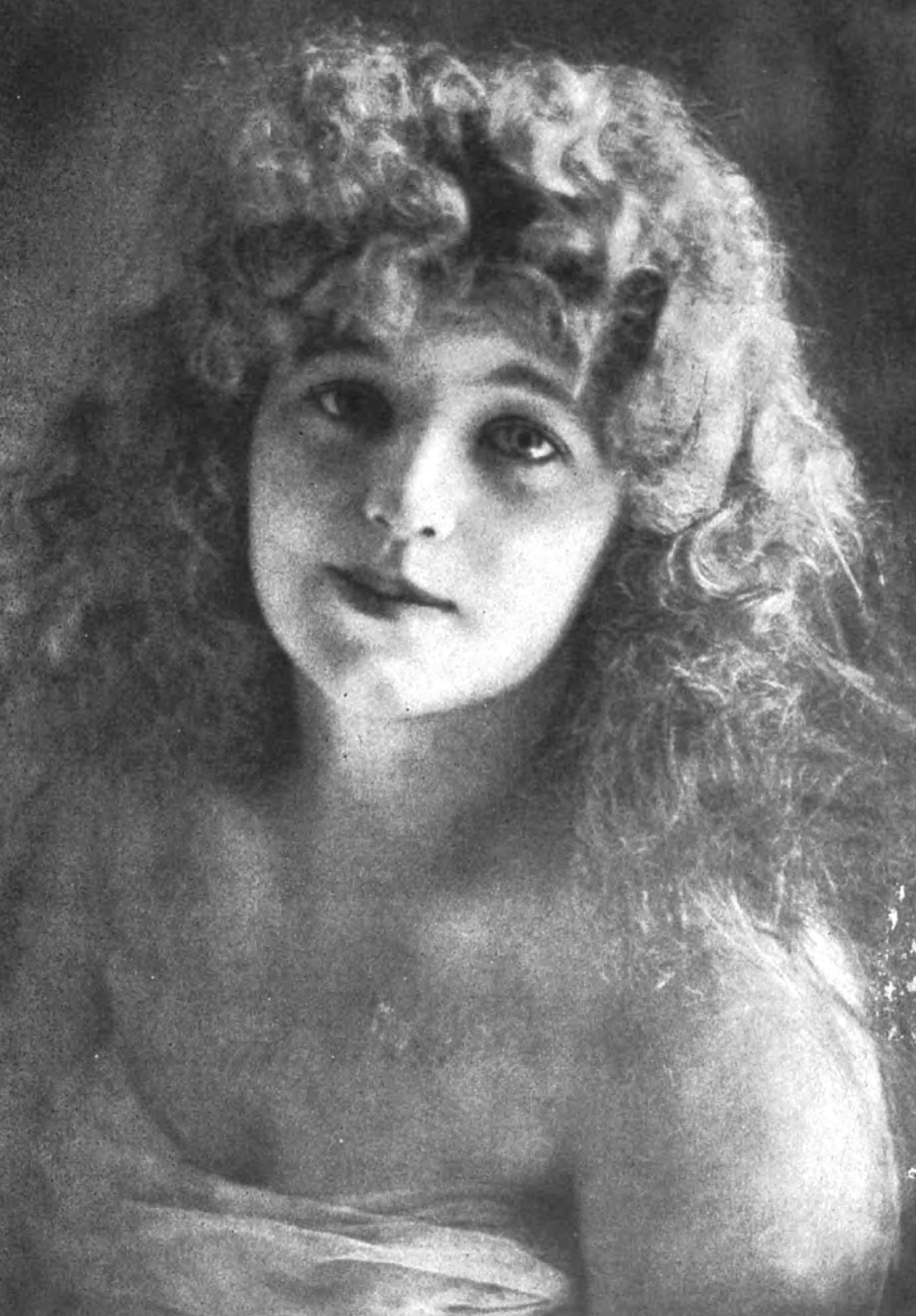 Marguerite Clayton (April 12, 1891 – December 20, 1968) was an American actress of the silent era.